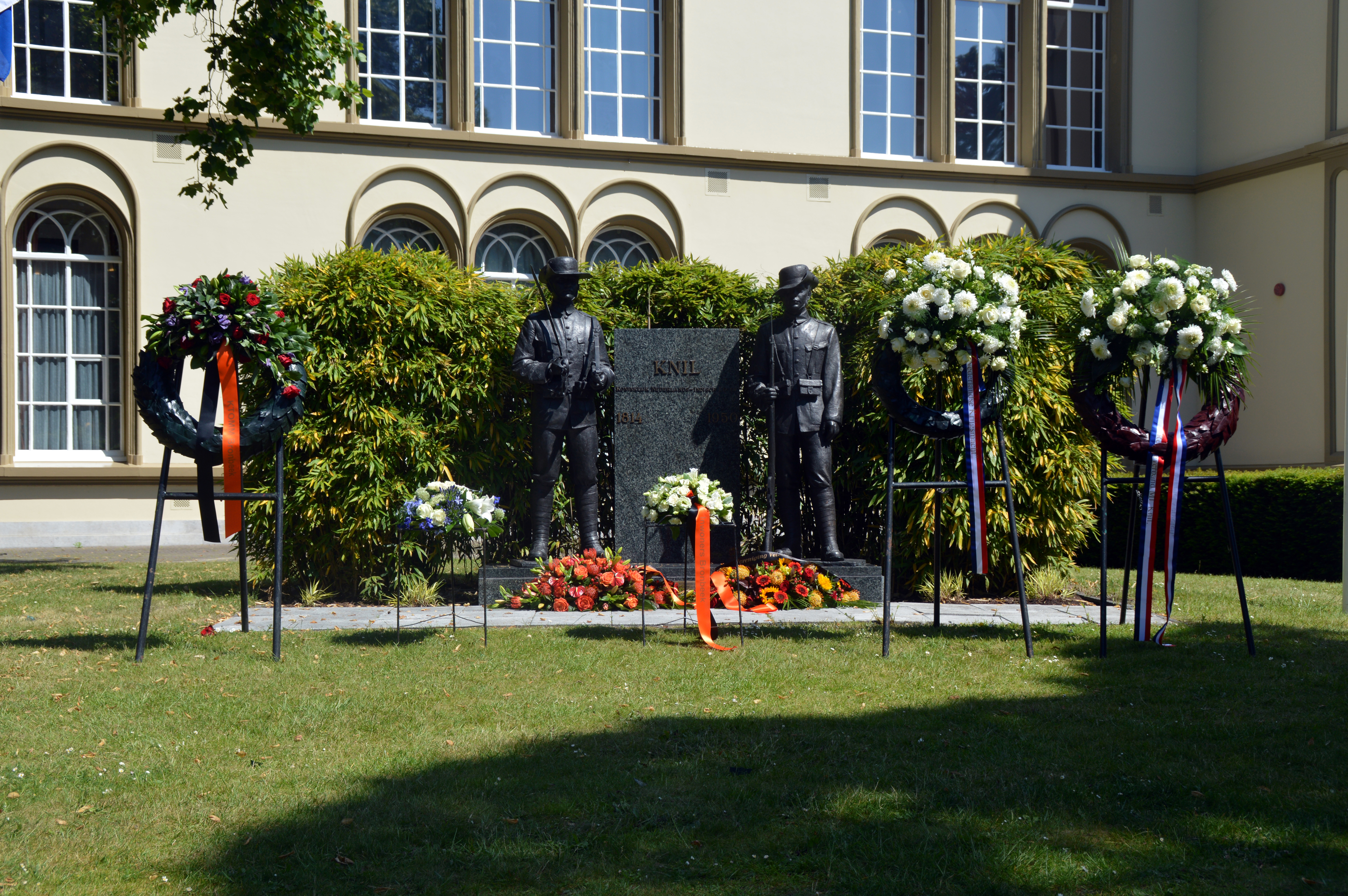 KNIL monument Bronbeek Arnhem Thérèse de Groot-Haider 1990